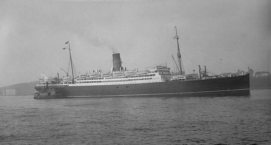 RMS Carinthia (II), ocean liner